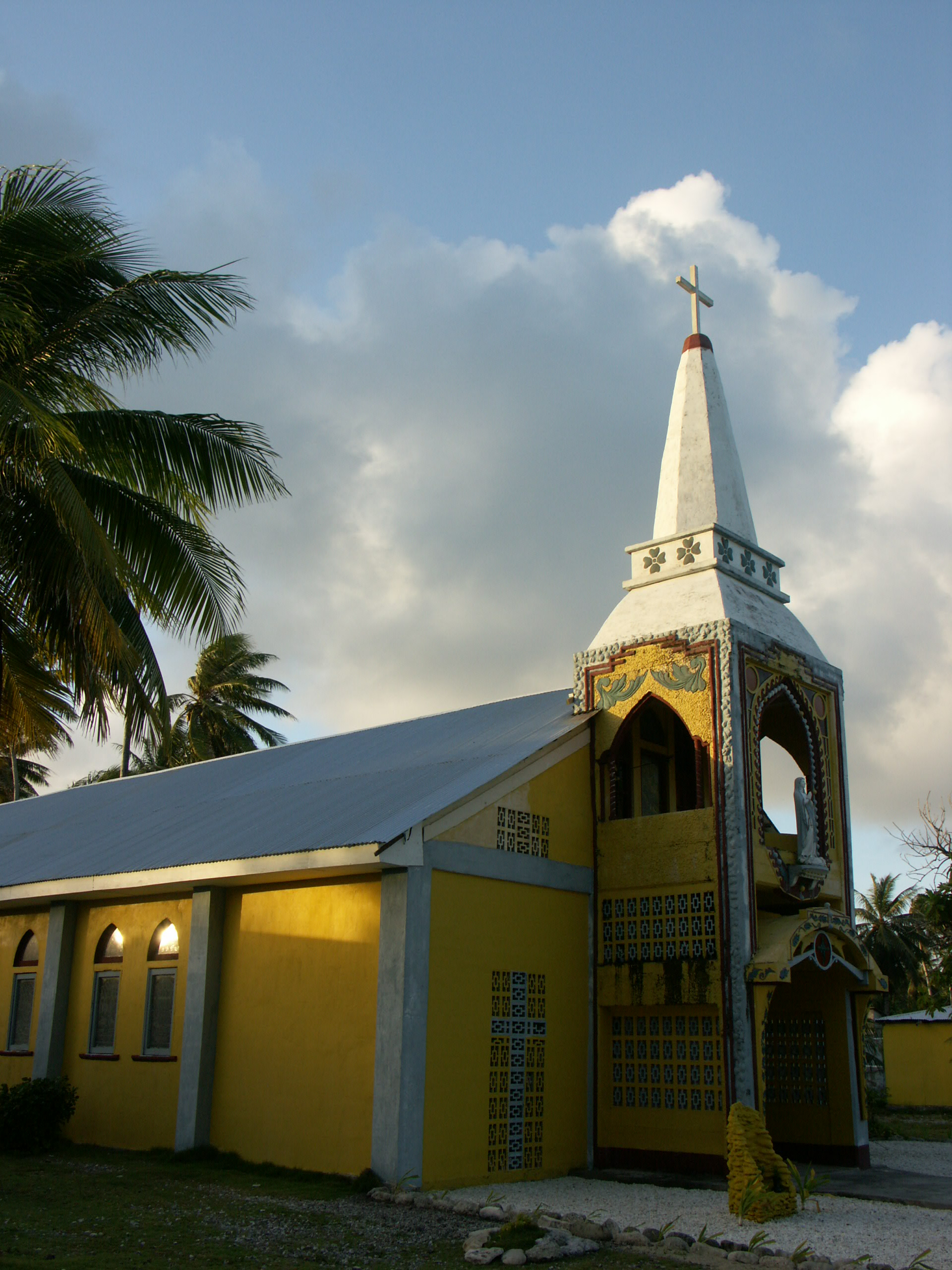 Catholic Church on the shores Likiep Atoll, Marshall Islands PICT0445